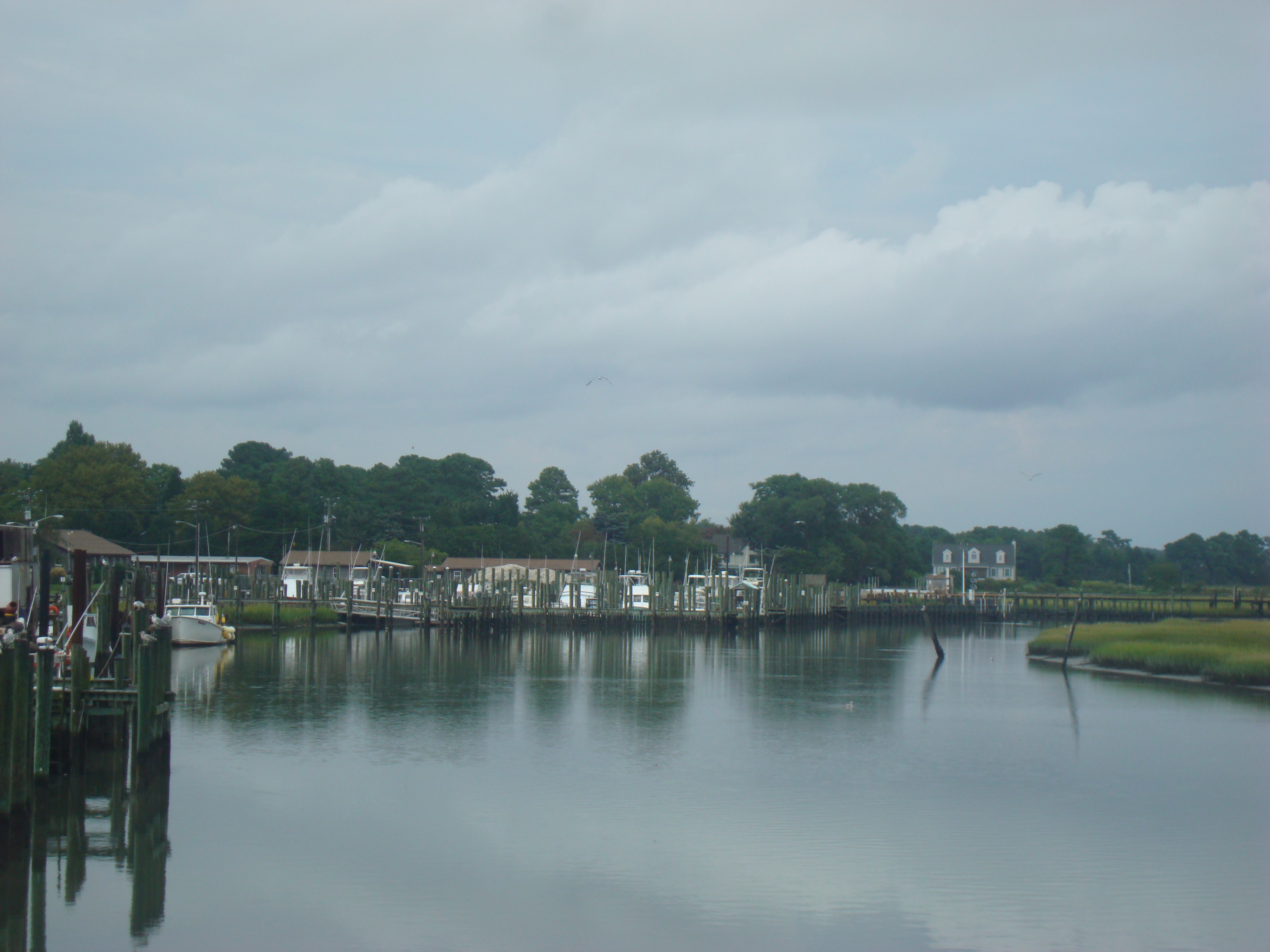 Salt marsh and fishing boats in Wachapreague, Virginia.